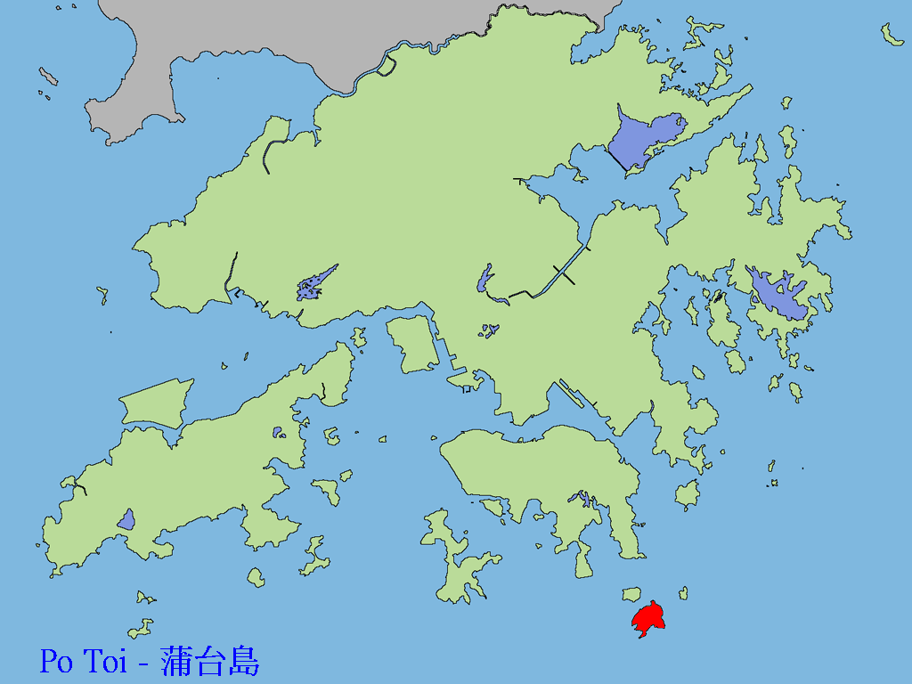 The Location of Po Toi